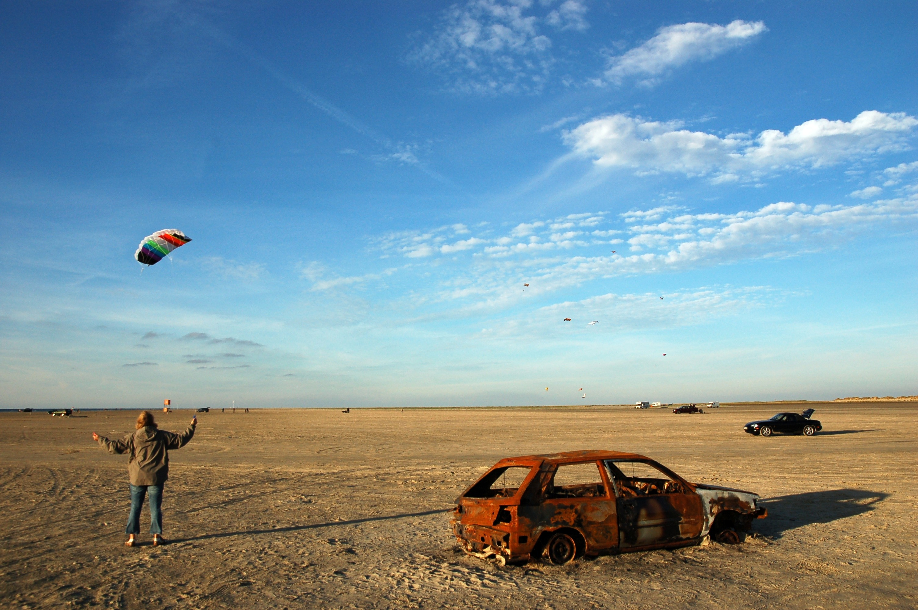 At the beach of Rømø, Denmark.